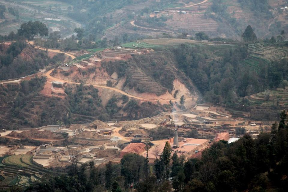 Place